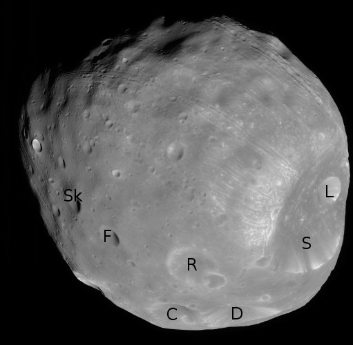 Some of the named craters of Phobos. C = Clustril; D = Drunlo; F = Flimnap; L = Limtoc; R = Reldresal; S = Stickney; Sk = Skyresh.